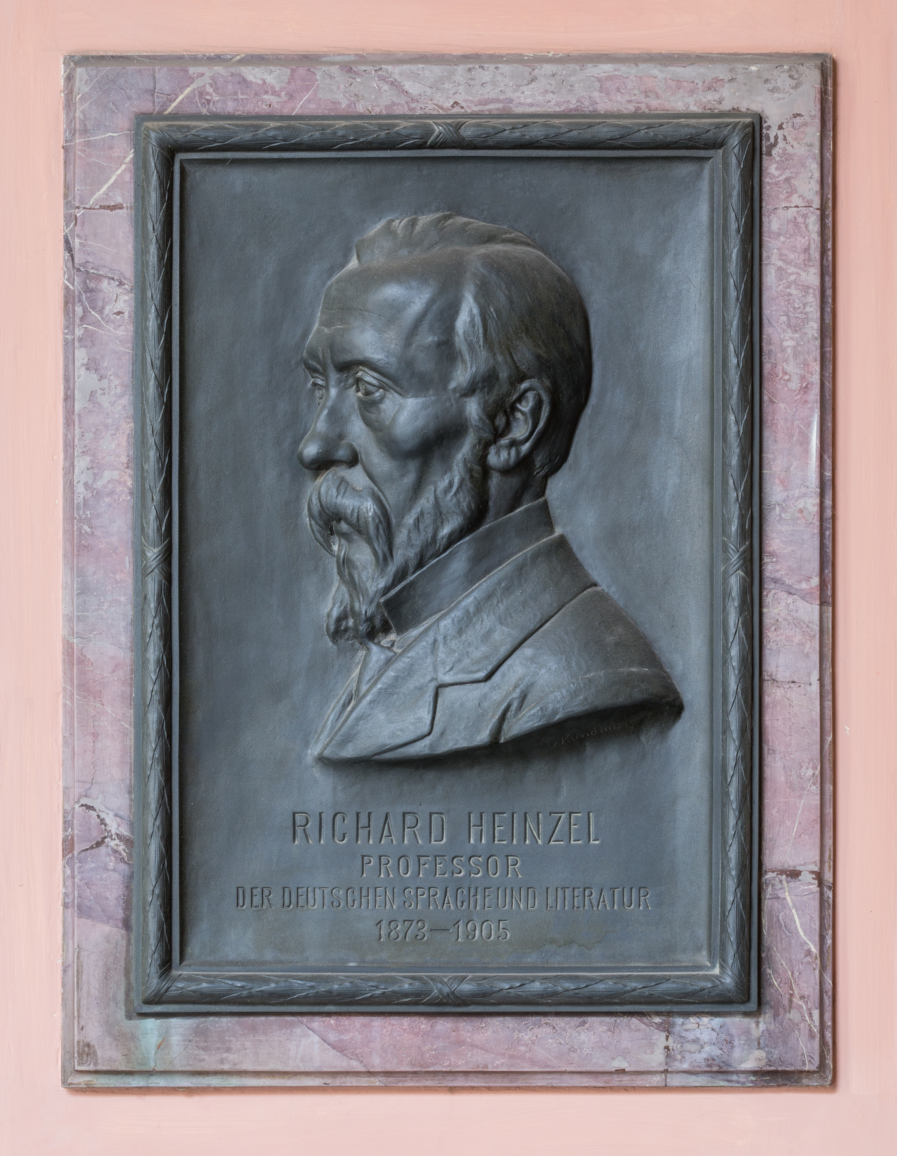 Richard Heinzel (1838-1905), basrelief (bronze) in the Arkadenhof of the University of Vienna, (Maisel# 53). Artist: Carl Kundmann (1838-1919), unveiled 1914 The making of this work was supported by Wikimedia Austria. For other files made with the support of Wikimedia Austria, please see the category Supported by Wikimedia Österreich.